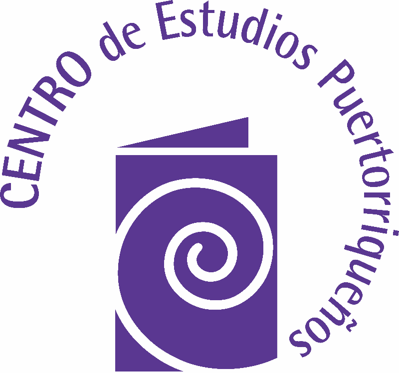 The official logo of Centro